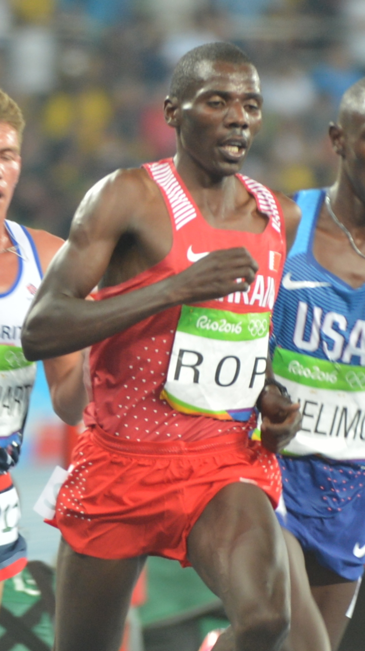 Albert Kibichii Rop in the men's 5,000-meter run at the Rio Olympic Games in Rio de Janeiro. U.S. Army photo by Tim Hipps, IMCOM Public Affairs #SoldierOlympians #ArmyOlympians #ArmyTeam #GoArmy #TeamUSA #RoadToRio #Olympics #ArmyStrong